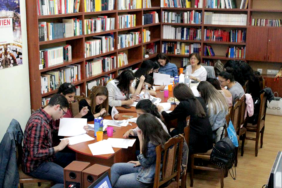 austrian library